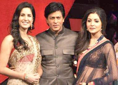 Katrina Kaif, Shahrukh Khan and Anushka Sharma on 'India's Got Talent' grand finale